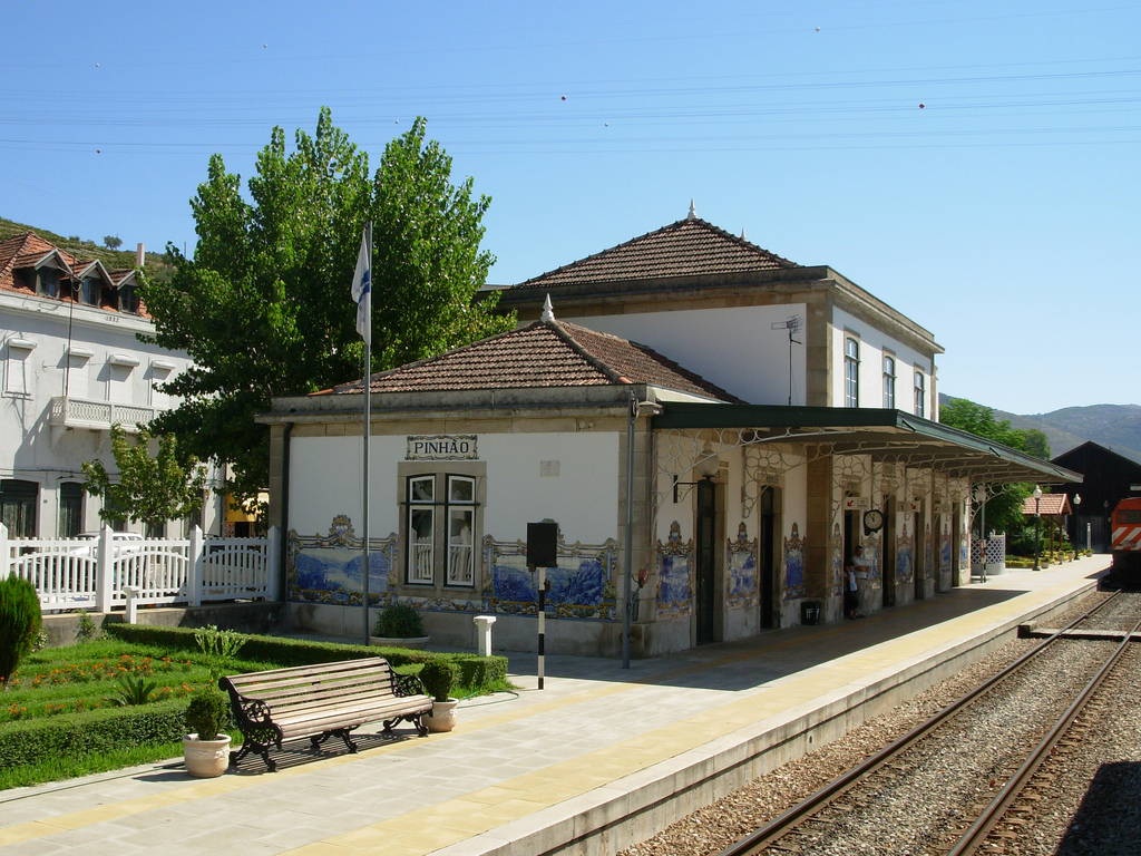 Pinhão train station, Portugal